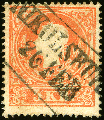 Austrian KK 5 kreuzer stamp issue 1859, cancelled at NIKOLSBURG (Moravia), Mueller type RB-R, popularity index 2